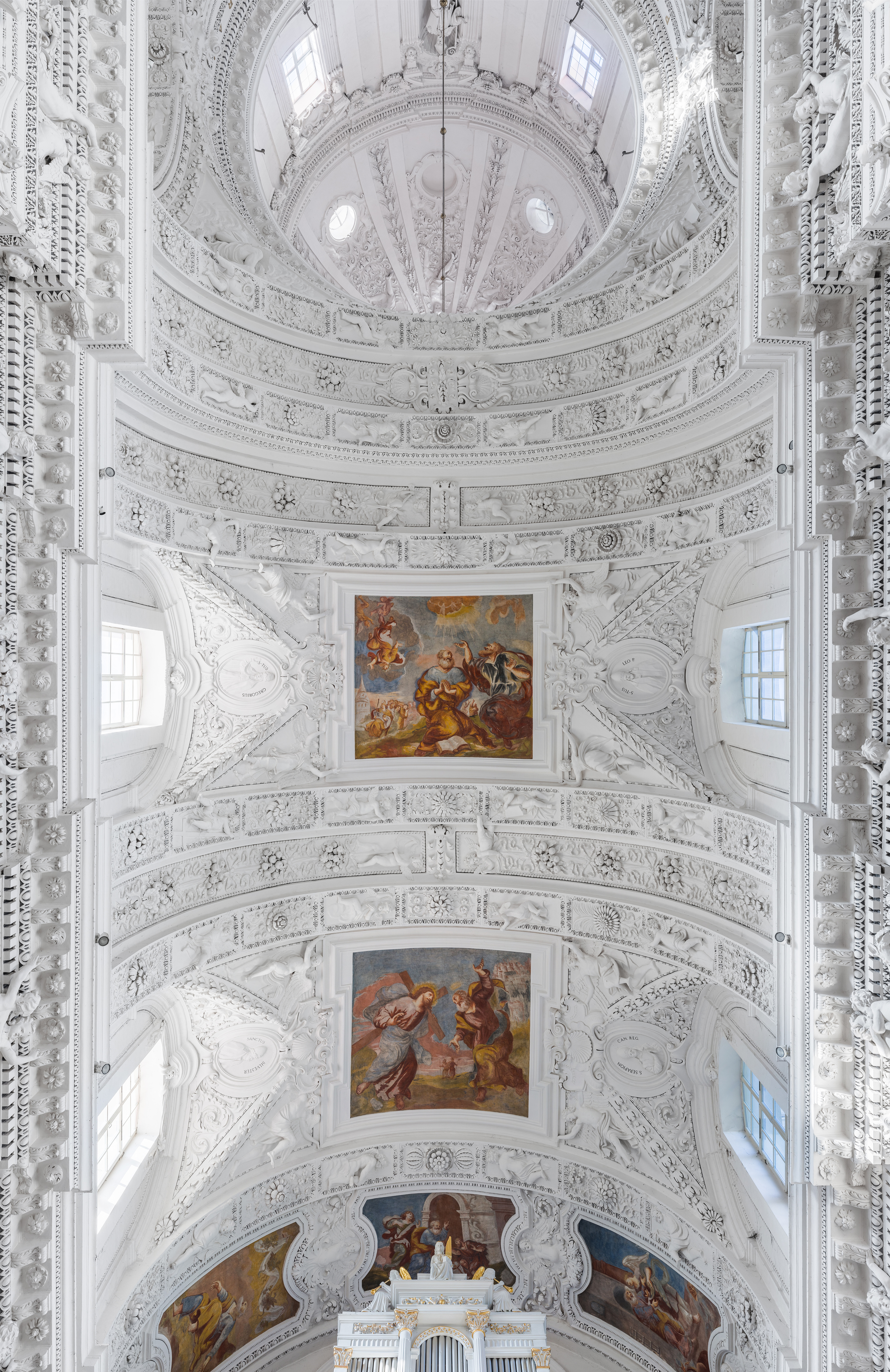 St. Peter and St. Paul's Church in Vilnius, Lithuania.